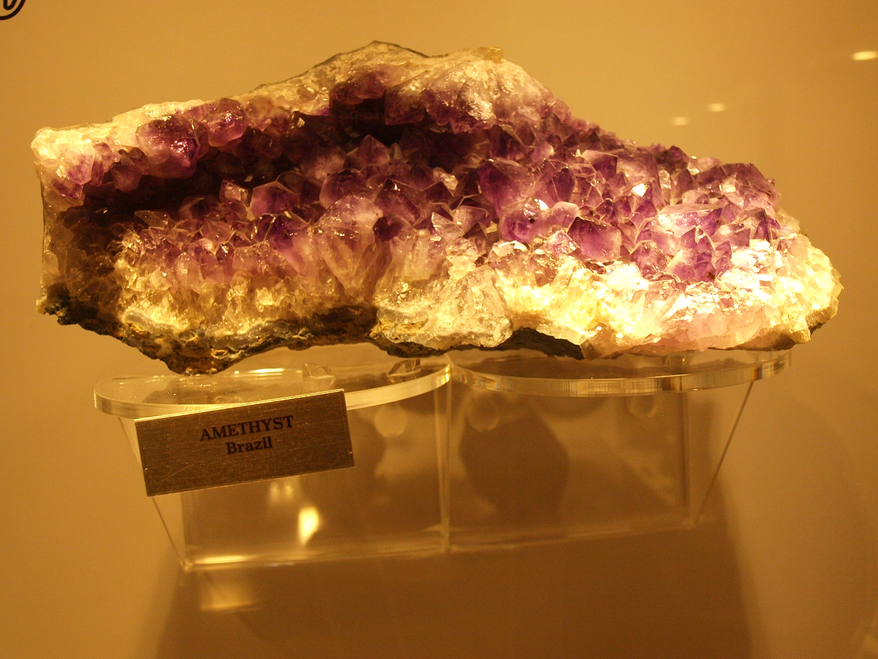 Collections of the Australian Museum